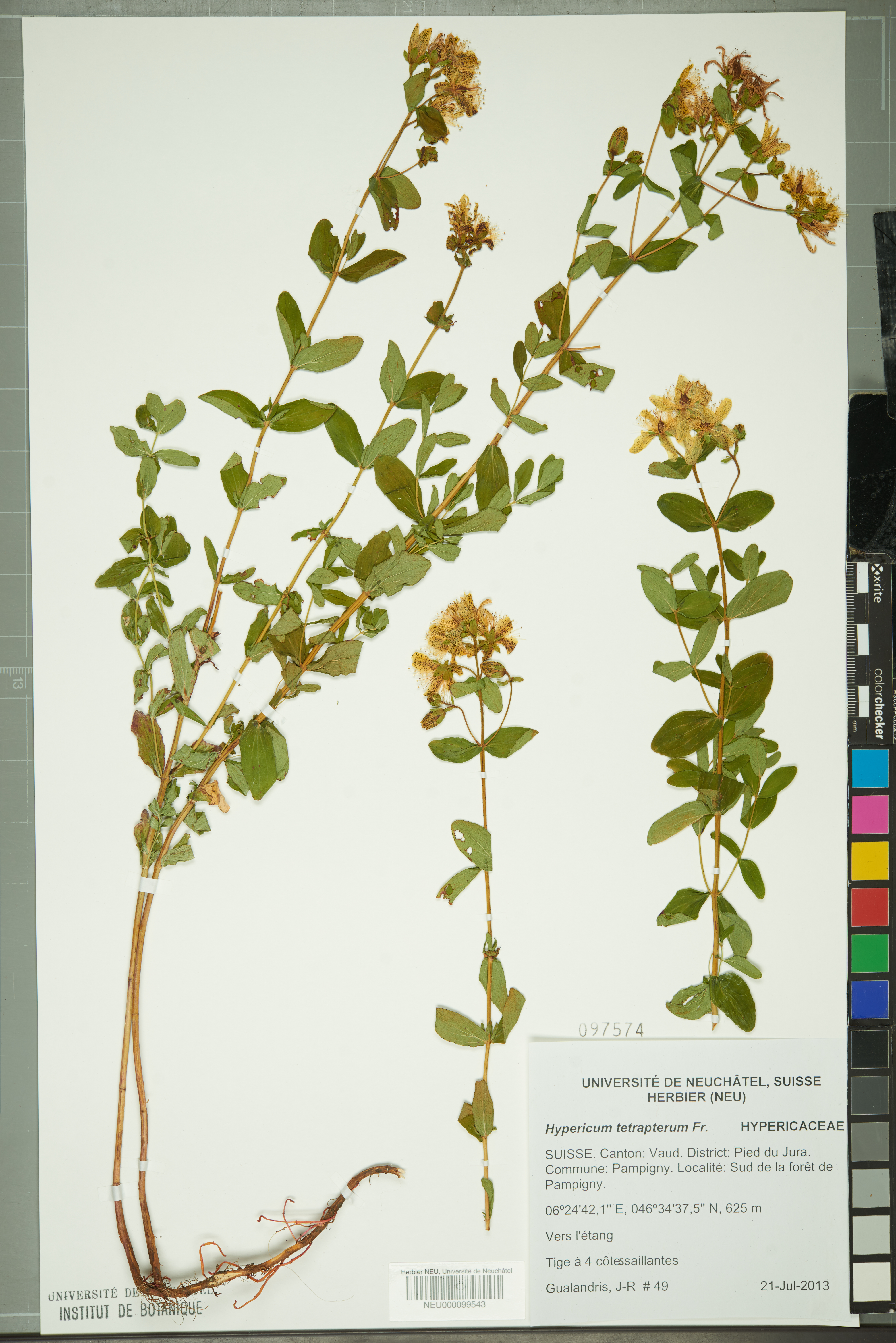 Dried pressed specimen of Hypericum tetrapterum